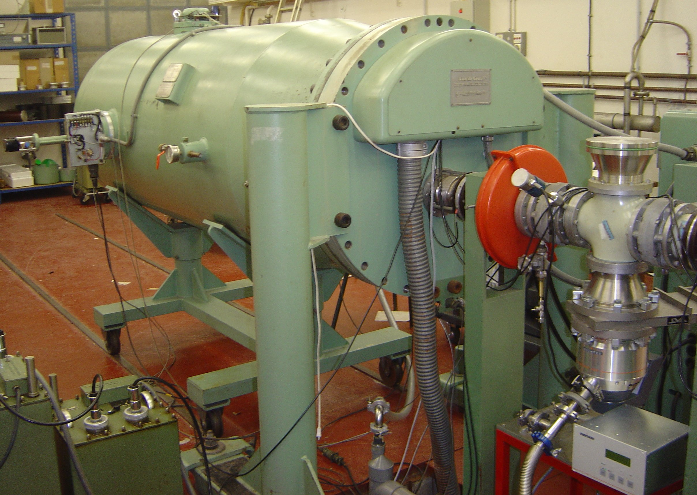 Van de Graaff particle accelerator in the basement of the Jussieu Campus in Paris Copyright © 2004 David Monniaux